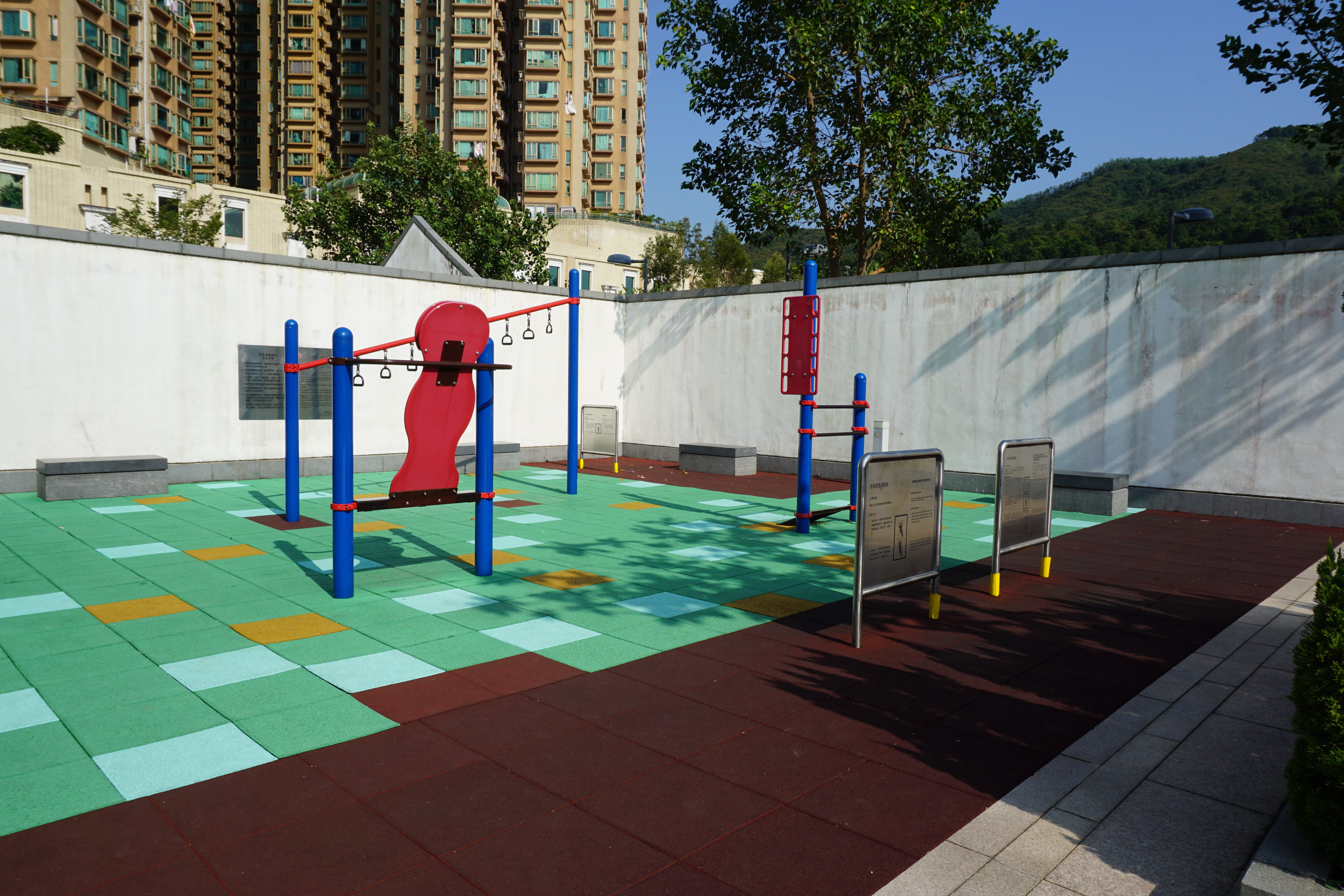 Man Kuk Lane Park in Hang Hau, Hong Kong.